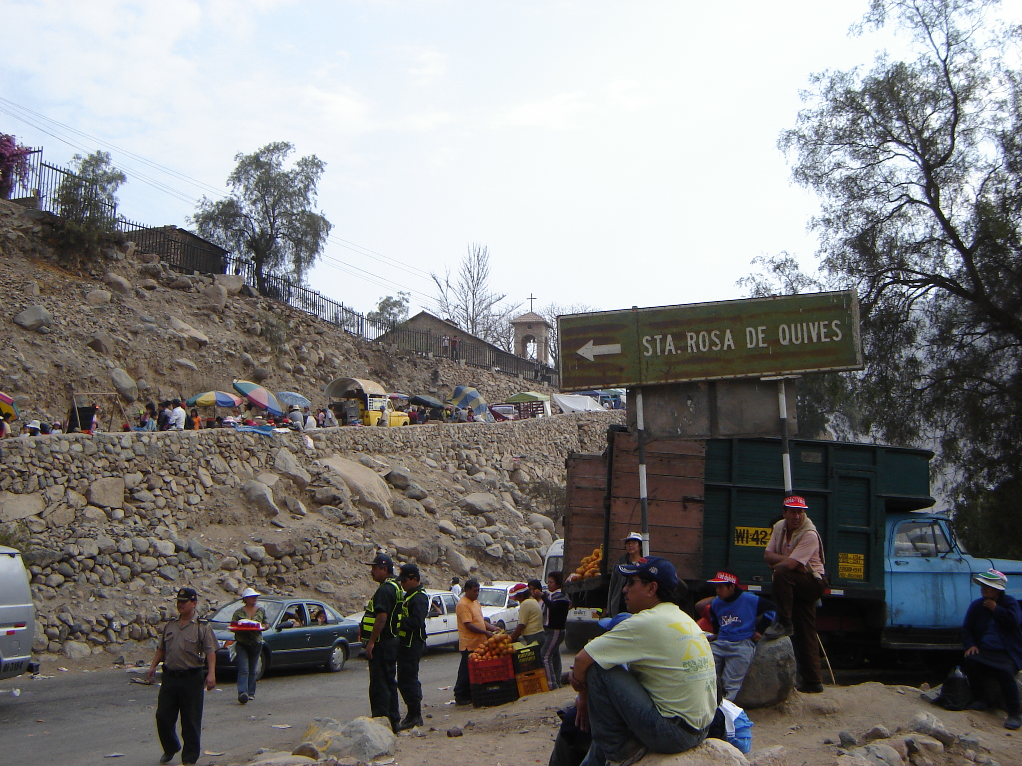 Road sign pointing at the entrance to the town of Santa Rosa de Quives.